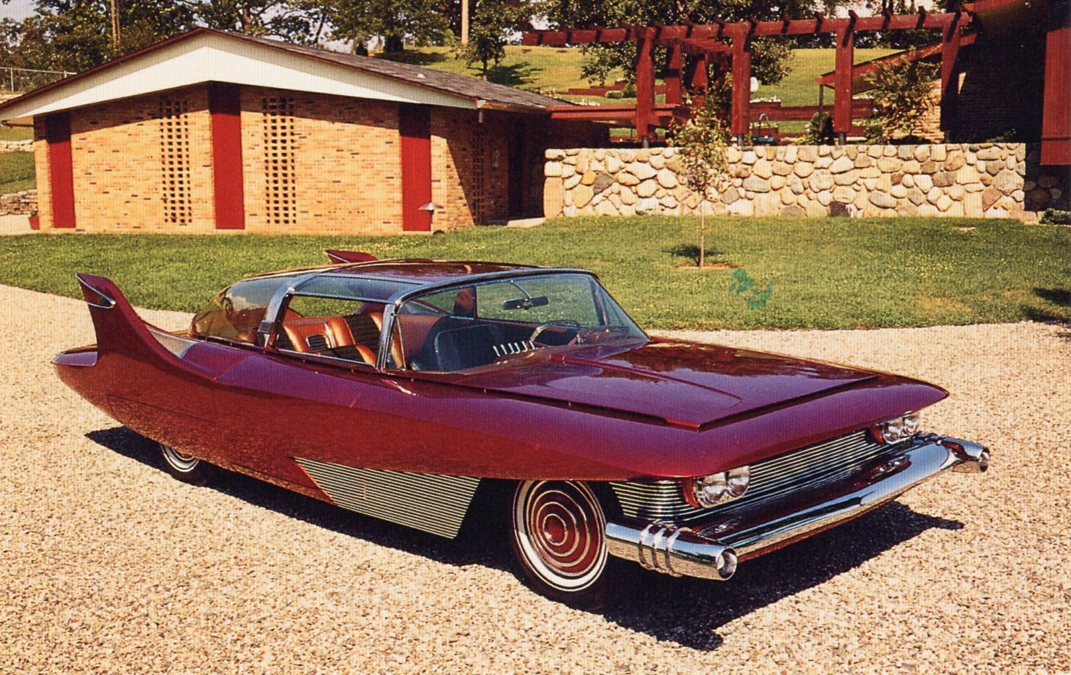 AKA The Bobby Darin Dream Car. Designed and built for the singer by Andy Di Dia in 1962. Powered by a Ford 427 V-8.